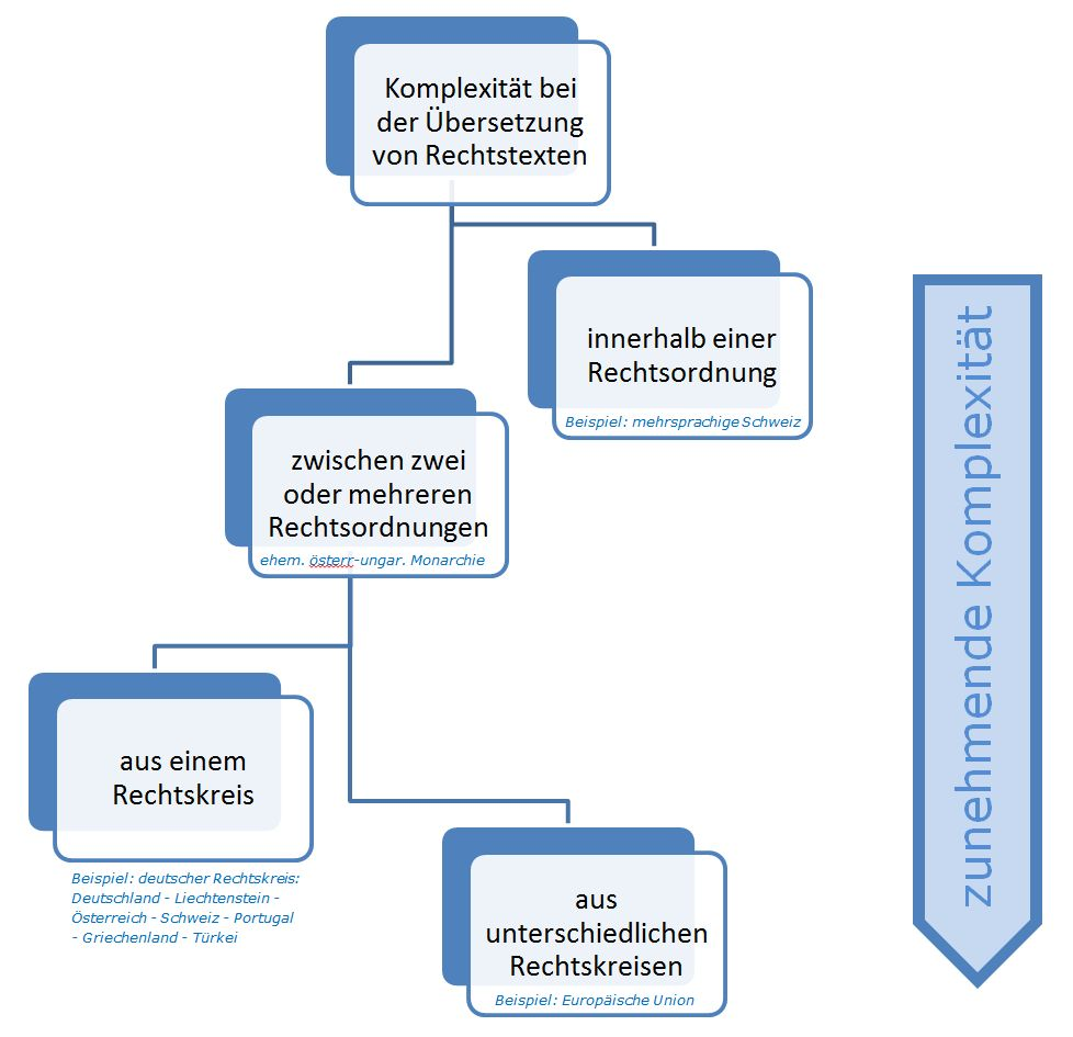 Diagram: complexity of legal translations by Peter Sandrini.